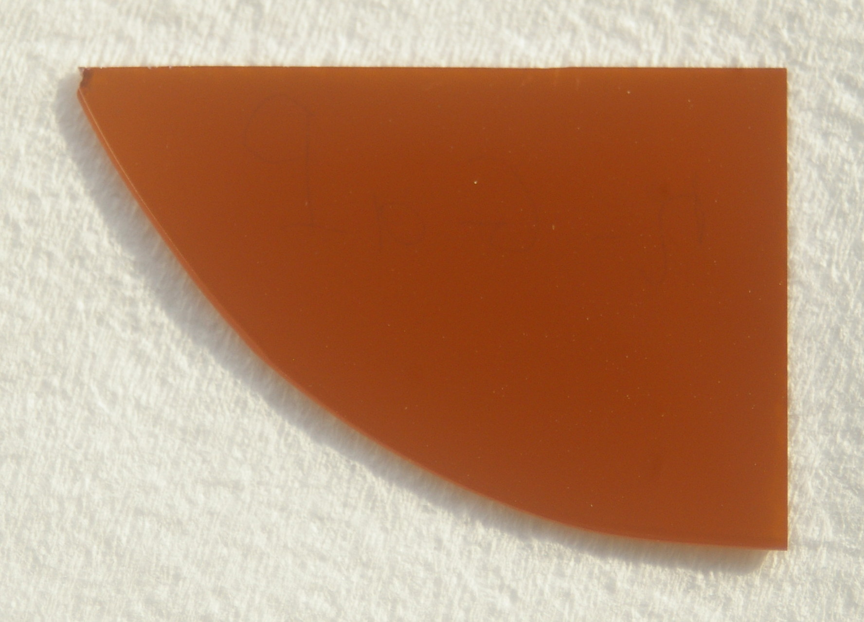 GaP wafer, one-side polished, S-doped n-type, sample length ~2 cm, thickness 0.430 mm